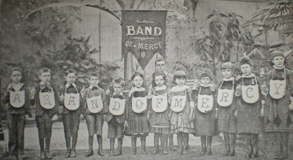 Collection of the National Museum of Animals & Society